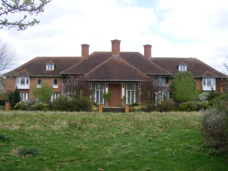 Sunninghill house, Berkshire, UK from the garden